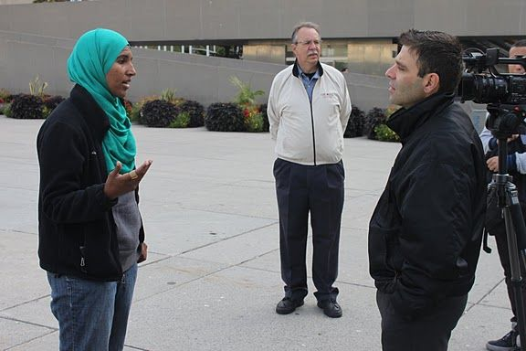 Somali social activist Shadya Yasin speaking to the media at Nathan Phillips Square in Toronto (September 20, 2011).